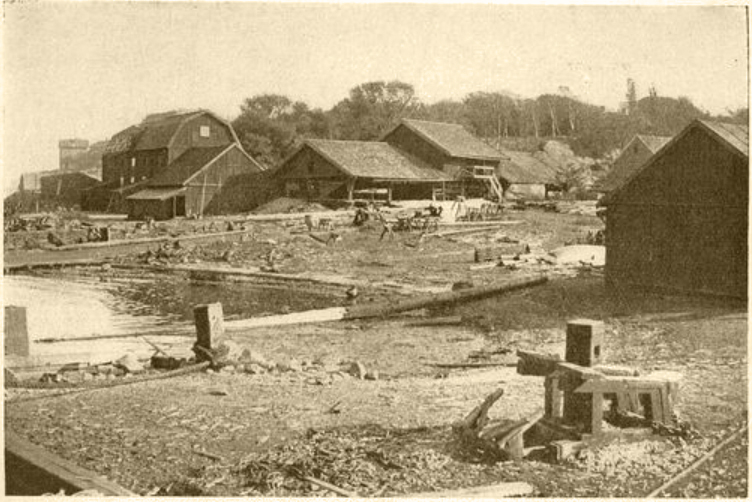 Store houses at the Old wharf Gothenburg Sweden. Photo in the book Det gamla Göteborg. Lokalhistoriska skildringar, personalia och kulturdrag / Del 1 (1919-1924) by Carl Rudolf A:son Fredberg via Project Runeberg.